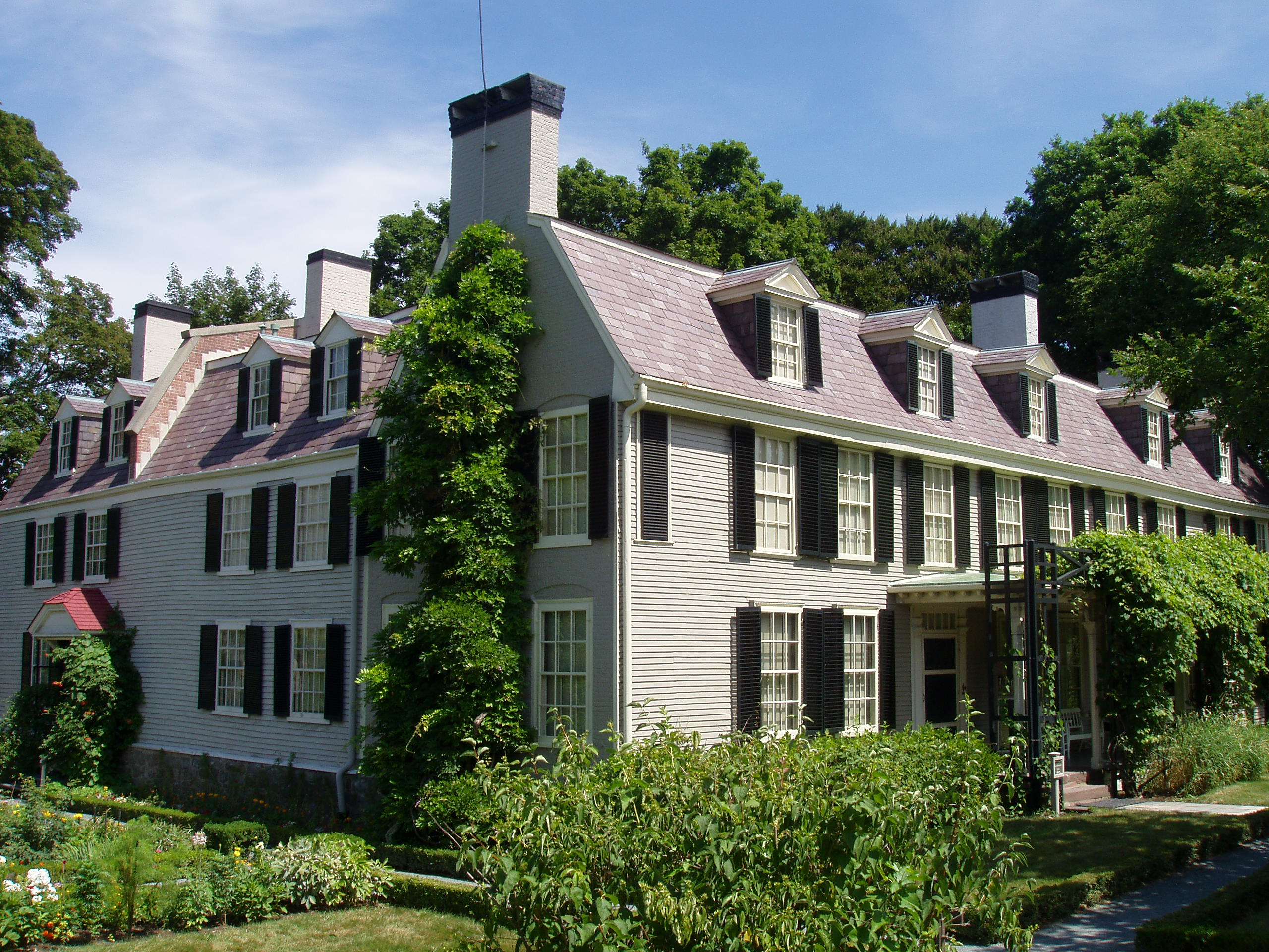 The "Old House" in Quincy, Massachusetts, residence of U. S. President John Adams and his family for four generations. It was home to Adams and his wife Abigail Adams, their son President John Quincy Adams and his wife Louisa Catherine Adams, their son Charles Francis Adams (ambassador to the United Kingdom during the American Civil War), and historians Henry Adams and Brooks Adams. This house is now part of the Adams National Historical Park operated by the National Park Service, and is open to the public. Photograph taken by User:Daderot , August 2005.